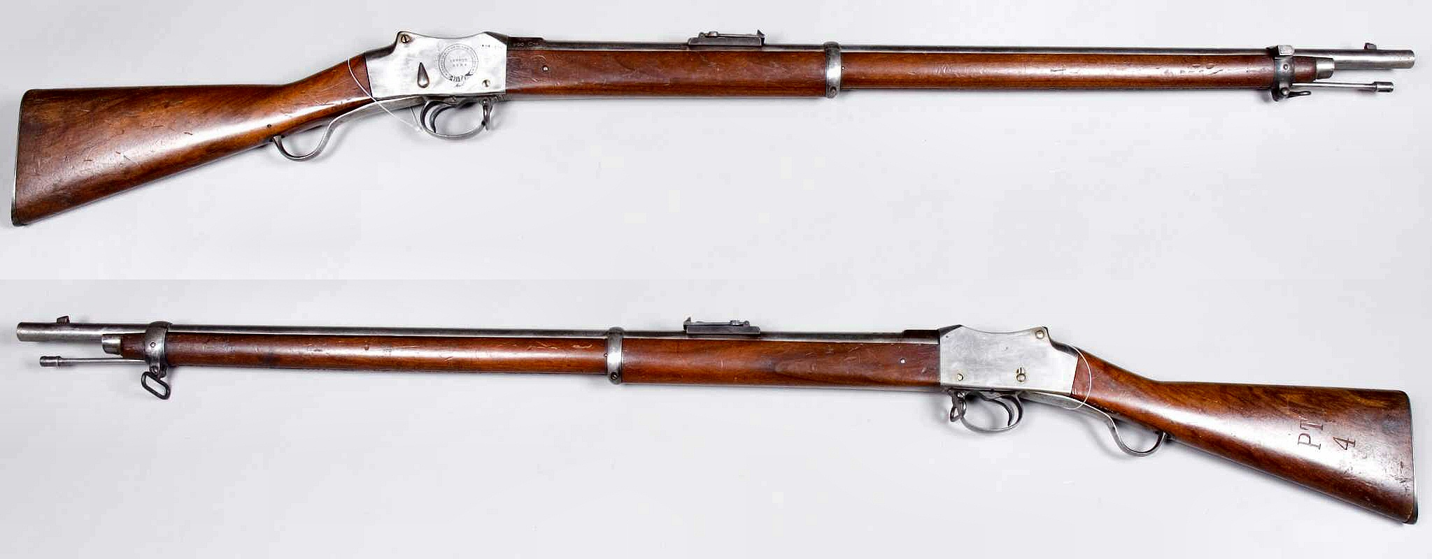 Martini-Henry rifle, model 1871. UK. From the collections of Armémuseum (Swedish Army Museum), Stockholm, Sweden.